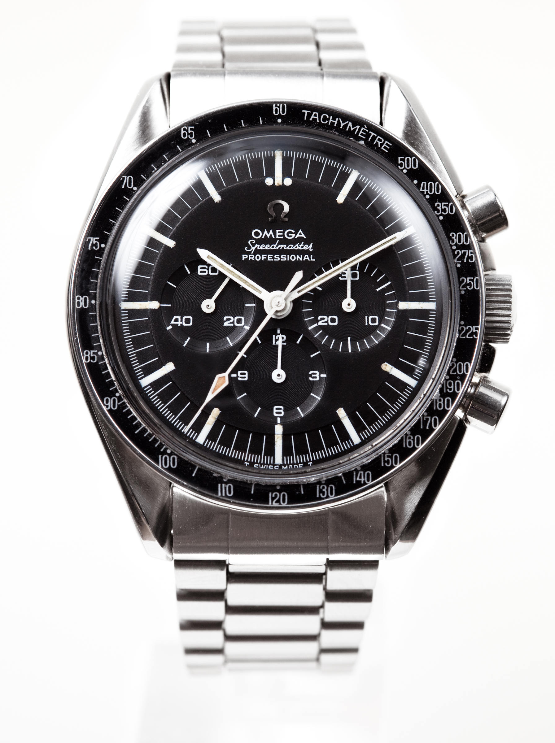 Vintage Omega Speedmaster ref. 145.012-67 chronograph wristwatch, as worn on the moon by Apollo astronauts; with 1171/633 bracelet